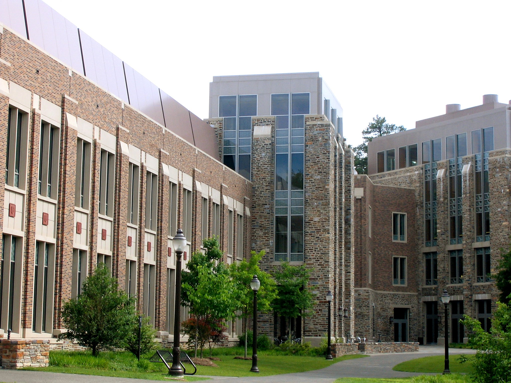 CIEMAS at Duke University